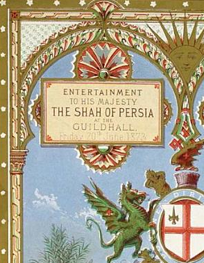 Small section of ornate 1873 menu for banquet at Guildhall to honor Shah of Persia during visit to Queen Victoria.